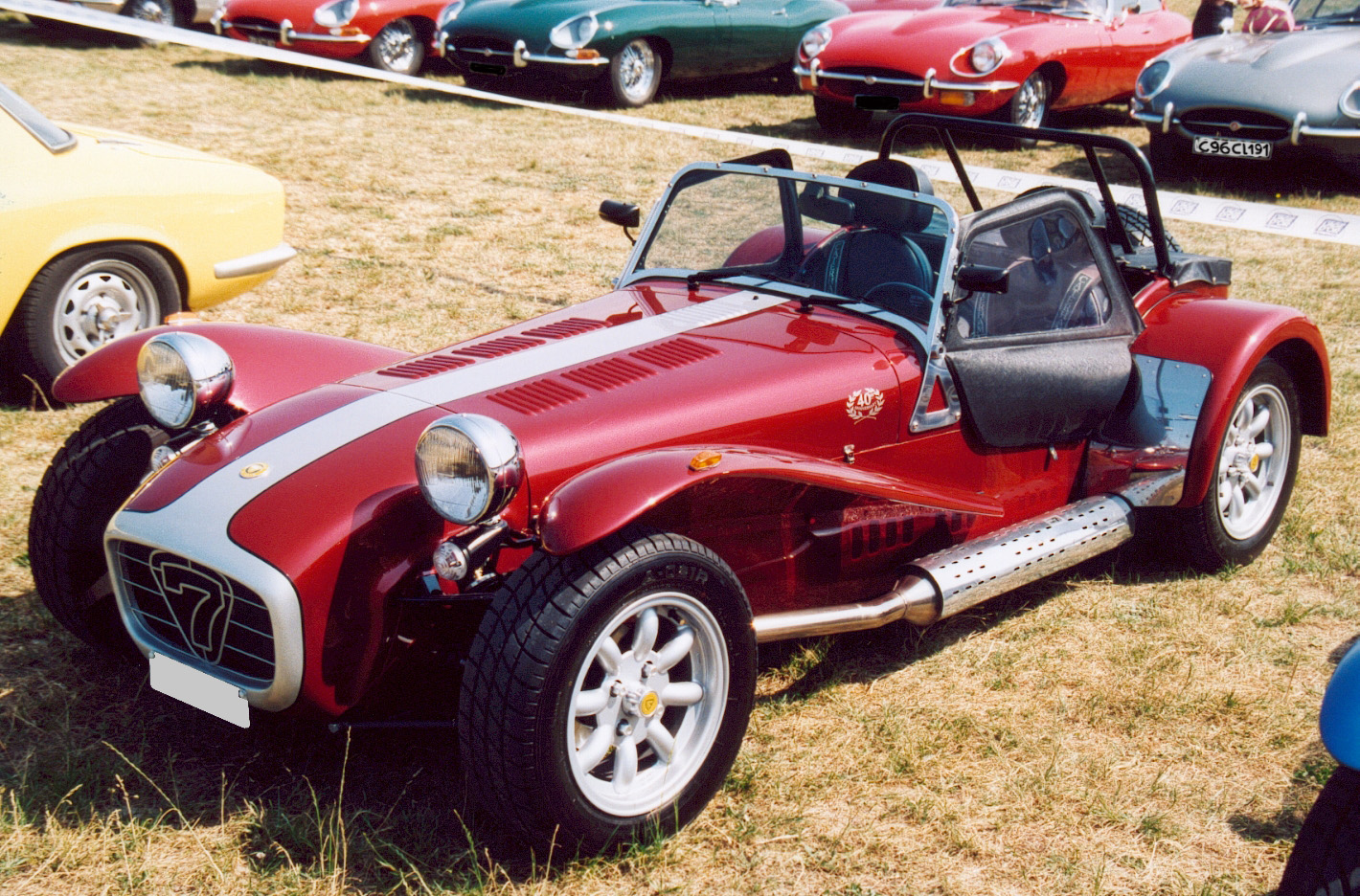 1997 Caterham Seven 40th Anniversary Edition